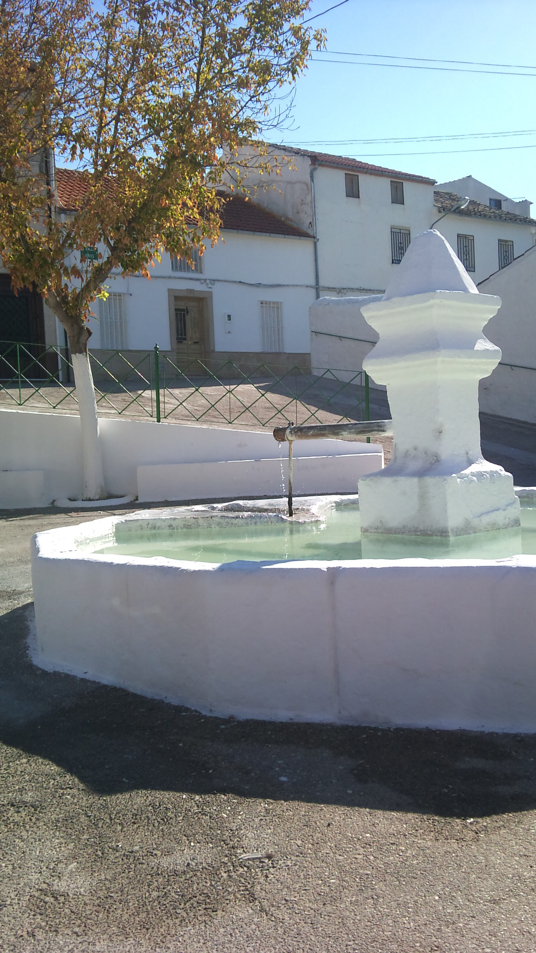 Fuente